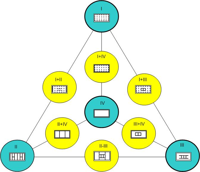 Classification scheme of high-rise buildings